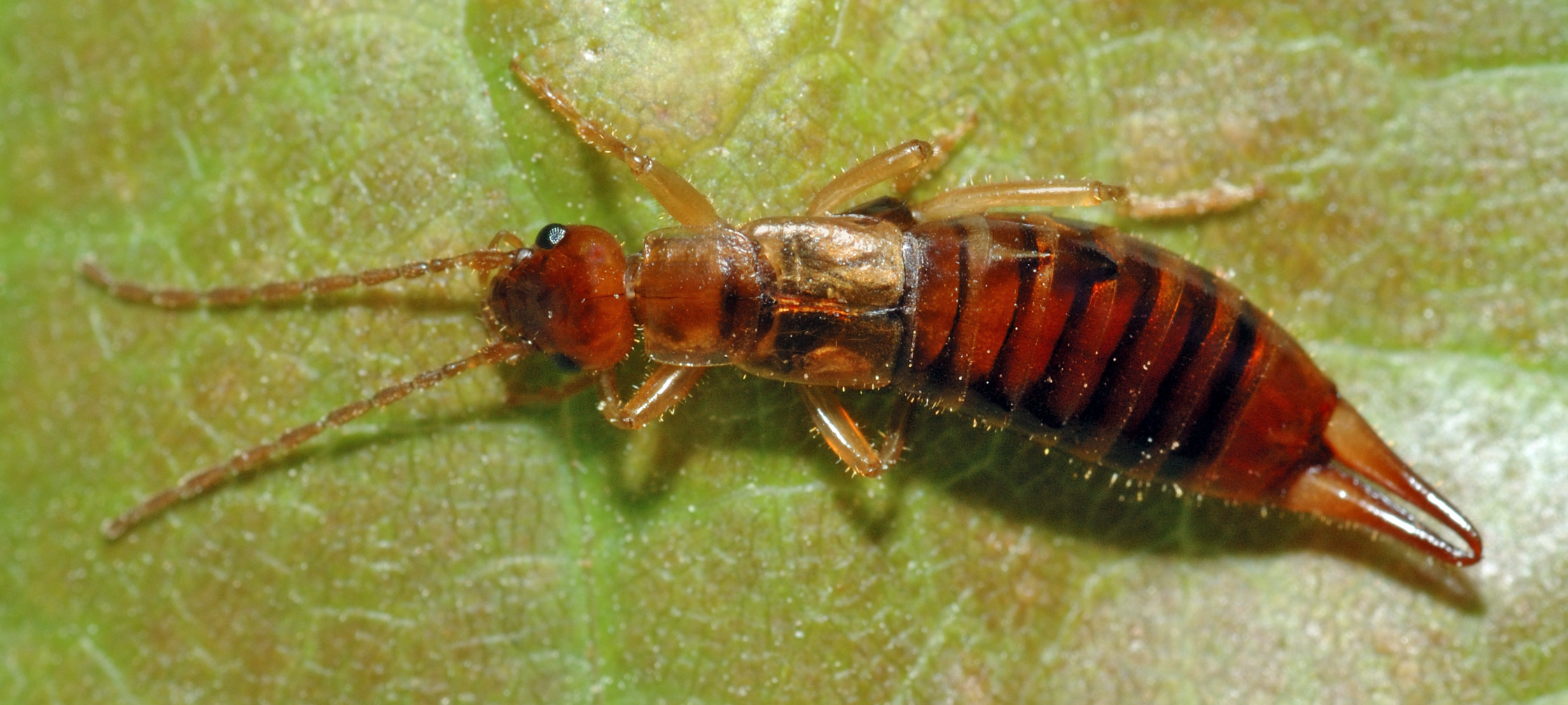 This image shows female earwig of the species Apterygida media. Thanks to Pudding4brains for identifying this animal.